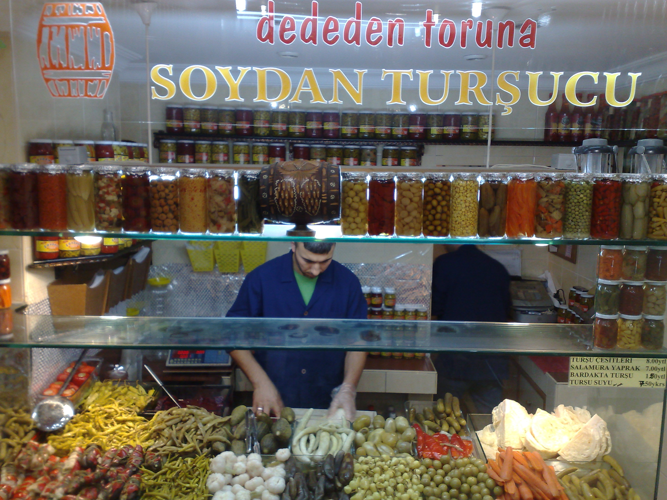 Pickled vegetables display